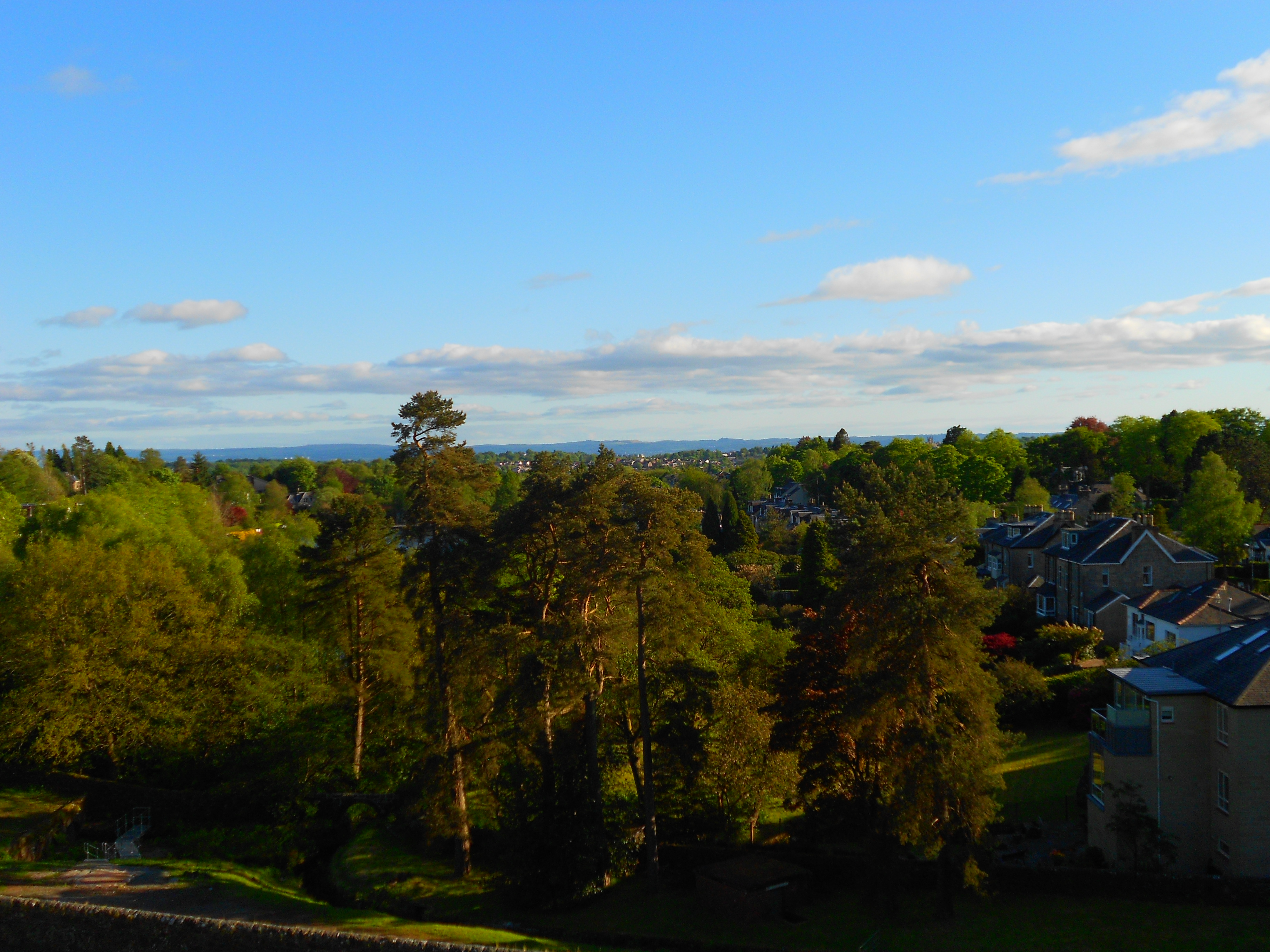 Milngavie scenery